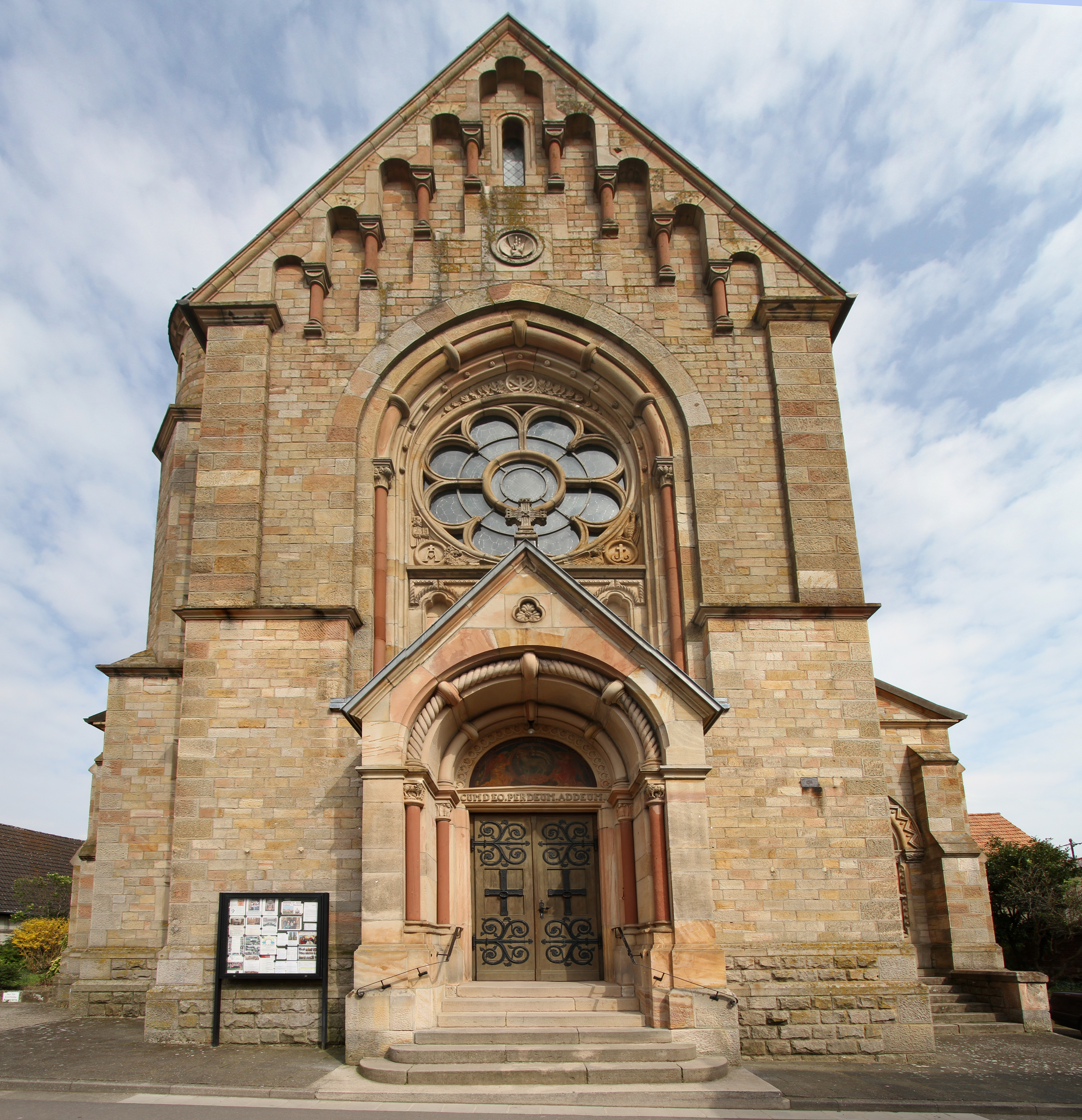 Church of Saint George in Landau in der Pfalz-Arzheim.